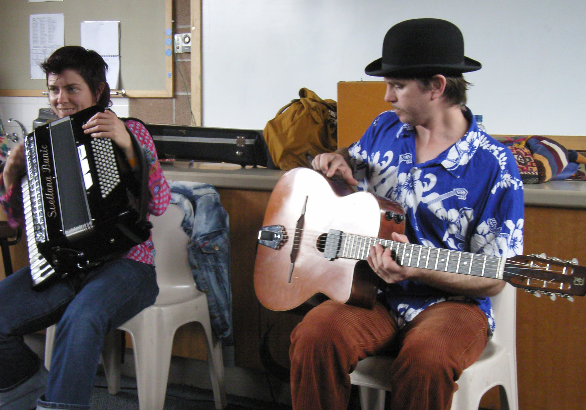 Members of Monsieur Camembert (Australian music group) giving a workshop at the 2005 at Cygnet Folk Festival (3) (Tony Rees photograph)